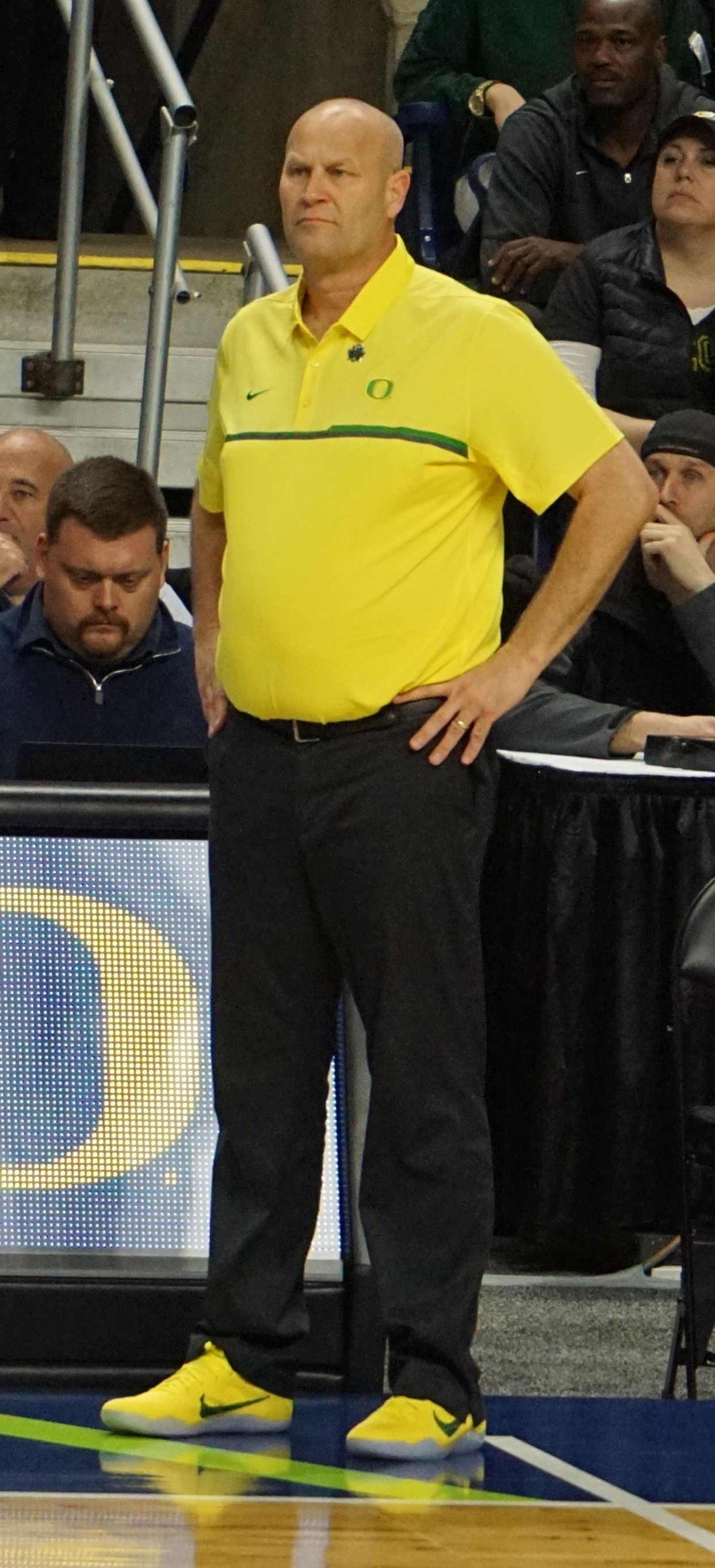 Kelly Graves, Oregon Head Coach, at Bridgeport Arena